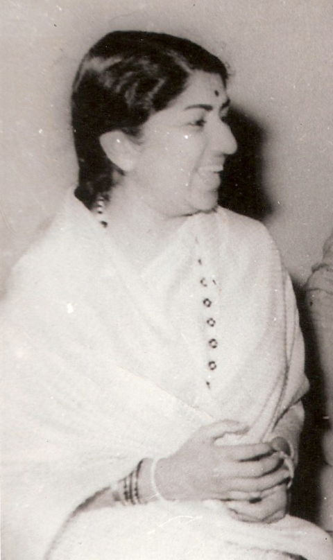 Indian singer Lata Mangeshkar as a young woman